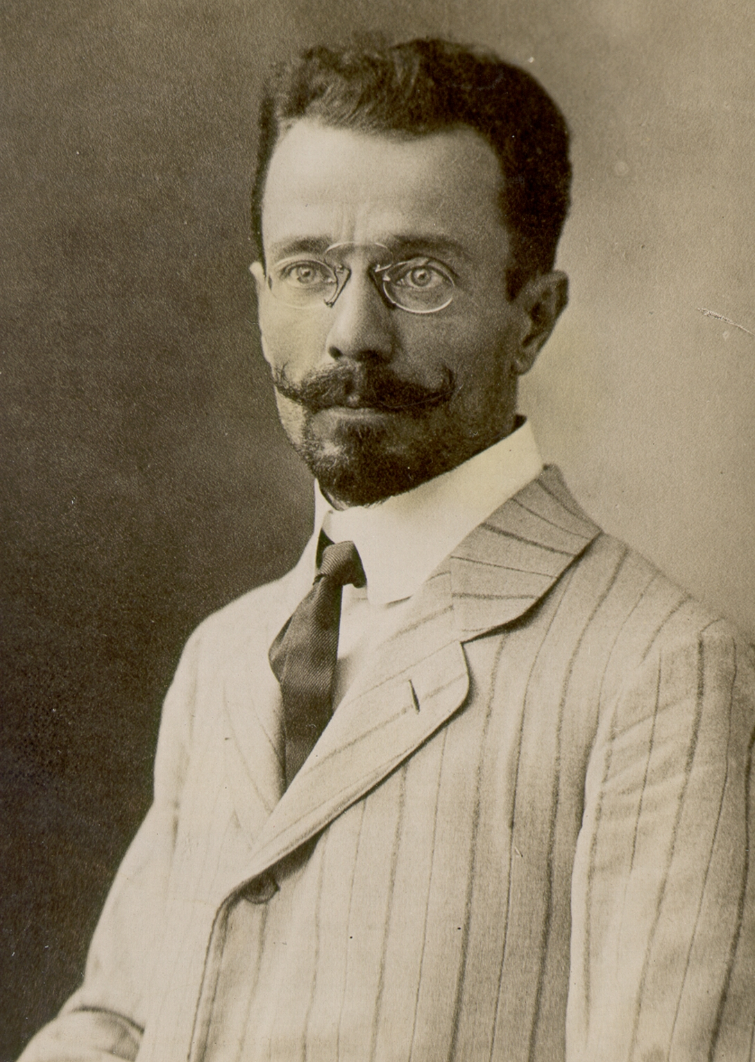 Anton Dermota (1876-1914), slovene politician and lawyer.